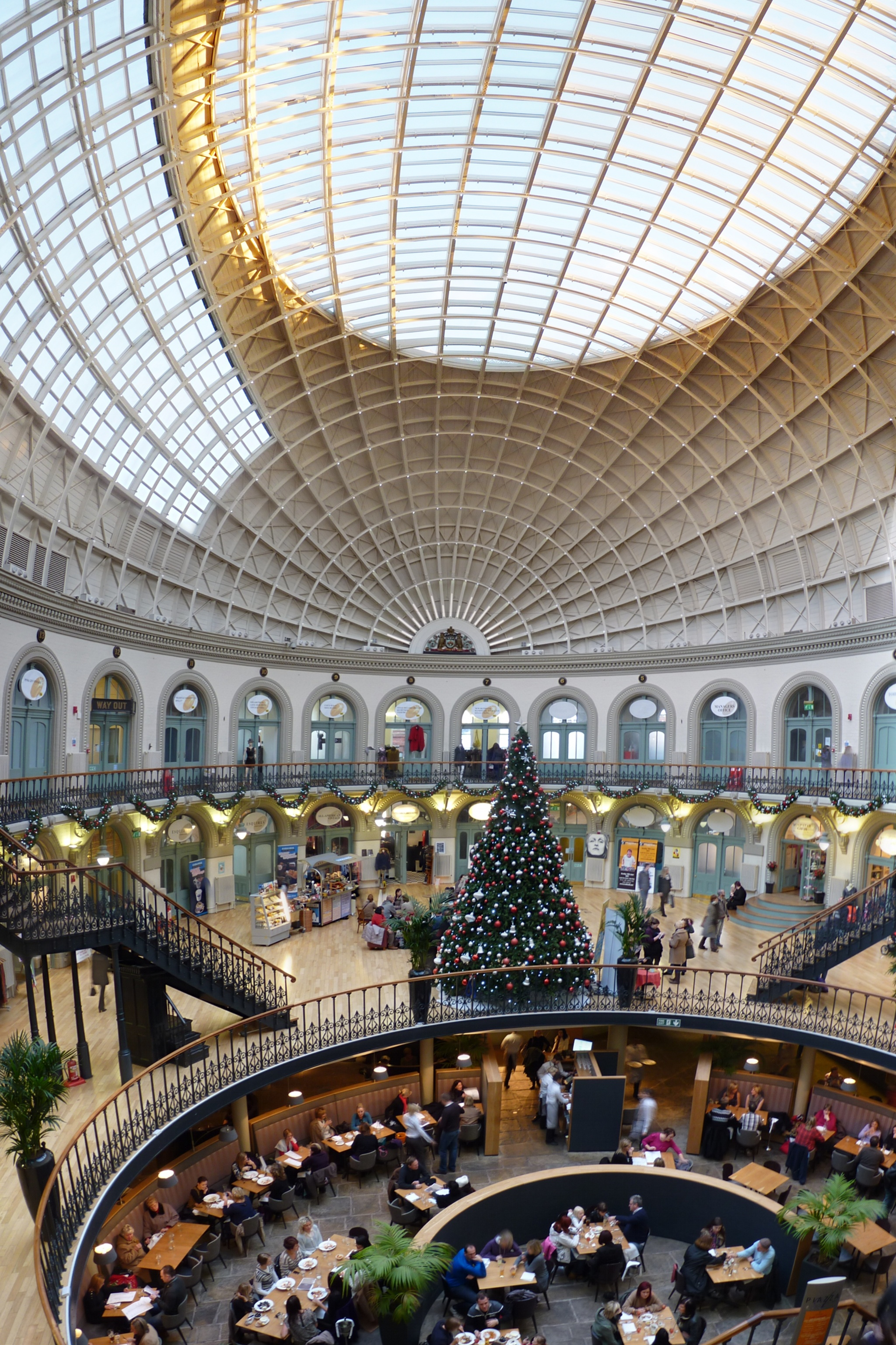 Interior of Leeds Corn Exchange in November 2010 (stitched HDR panorama)